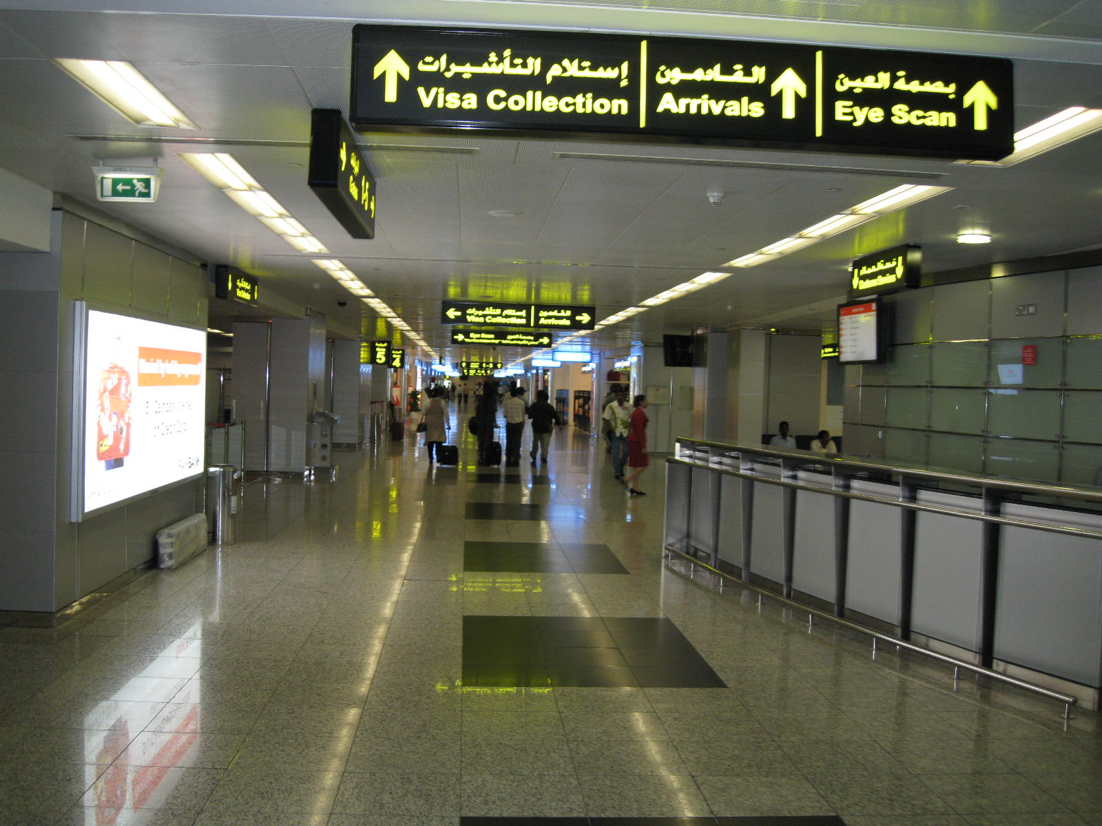 Sharjah International Airport